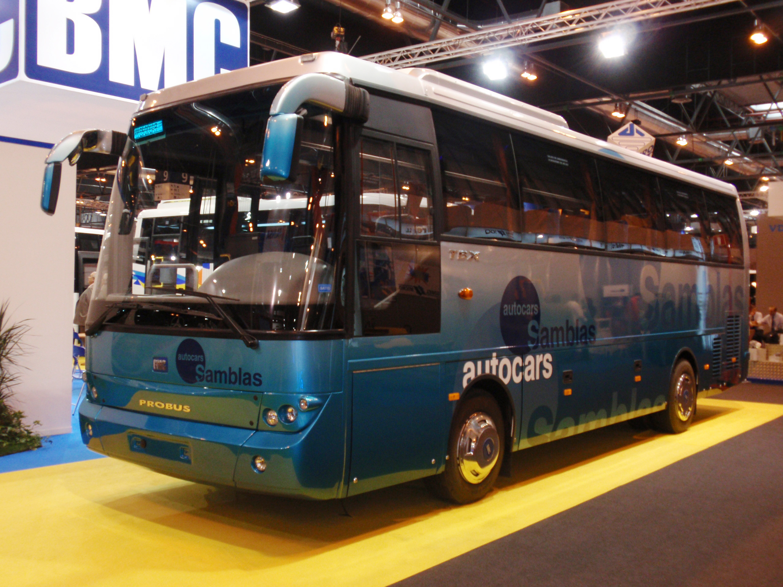 BMC Probus TBX at the 2008 FIAA (International Bus and Coach Fair) in Madrid